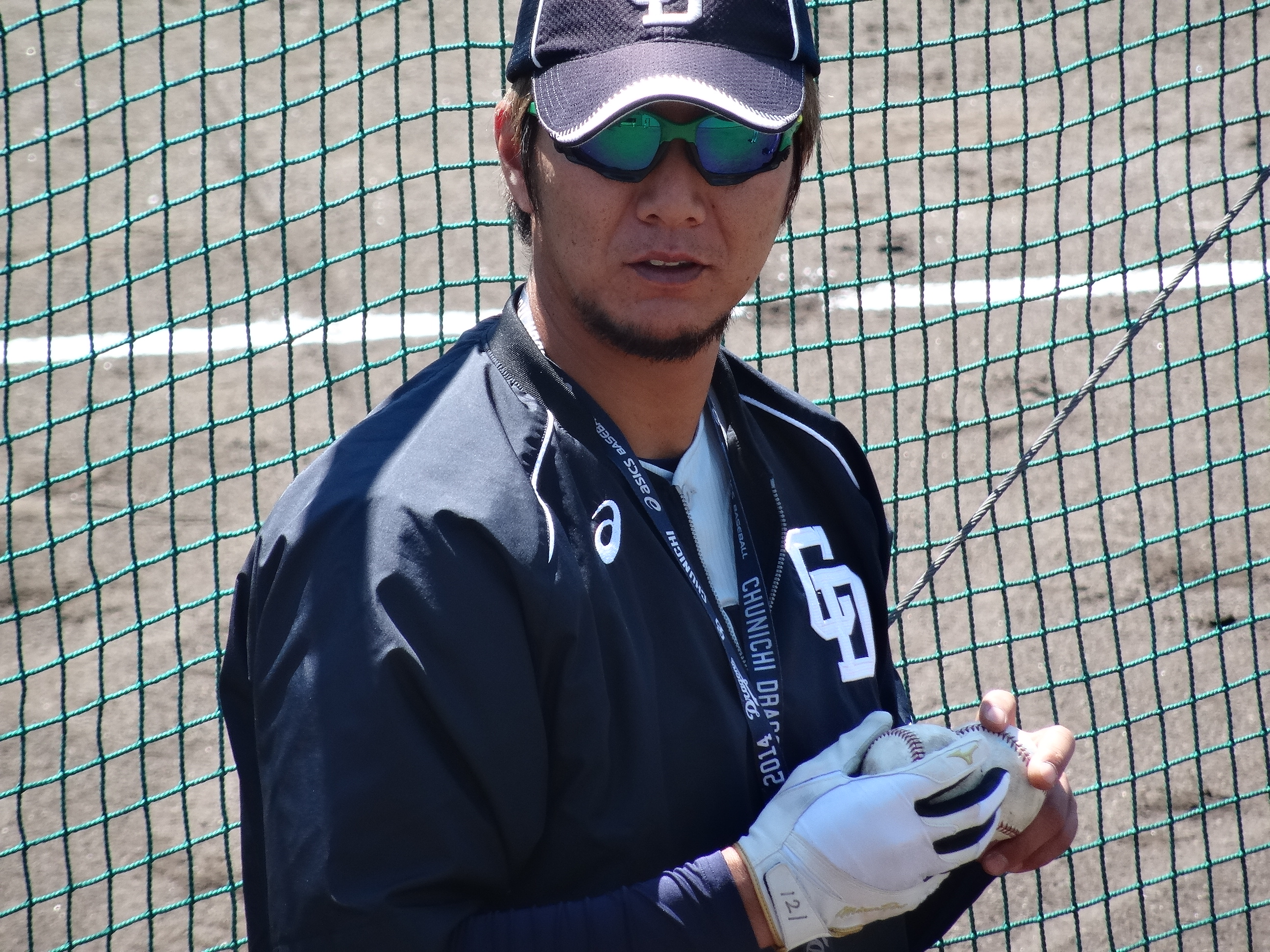 Ryota Sato, batting-practice pitcher of the Chunichi Dragons, at Hanshin Naruohama Baseball Ground